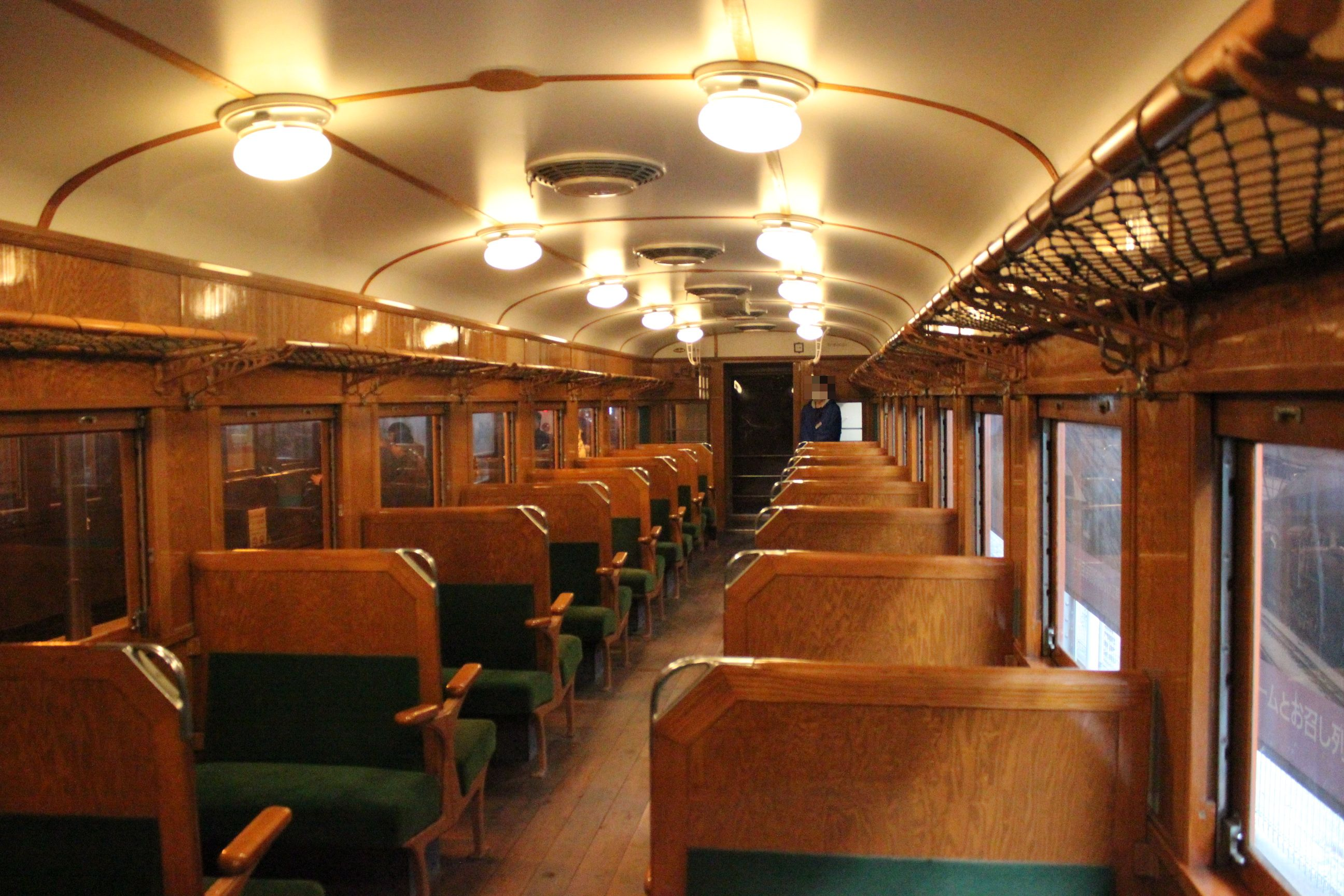 The interior of former JNR 80 series EMU car MoHa 80001 preserved at the Modern Transportation Museum in Osaka